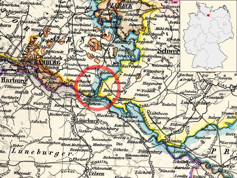 Railway line Buechen–Lauenburg in Germany.